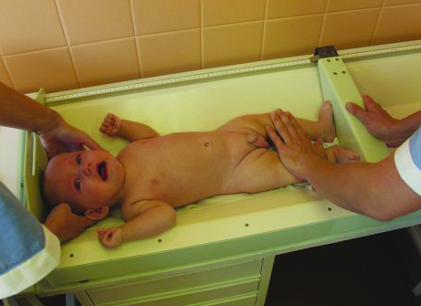 Miminko na váze